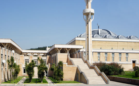 Masjid of Rome is the biggest mosque in Western world.